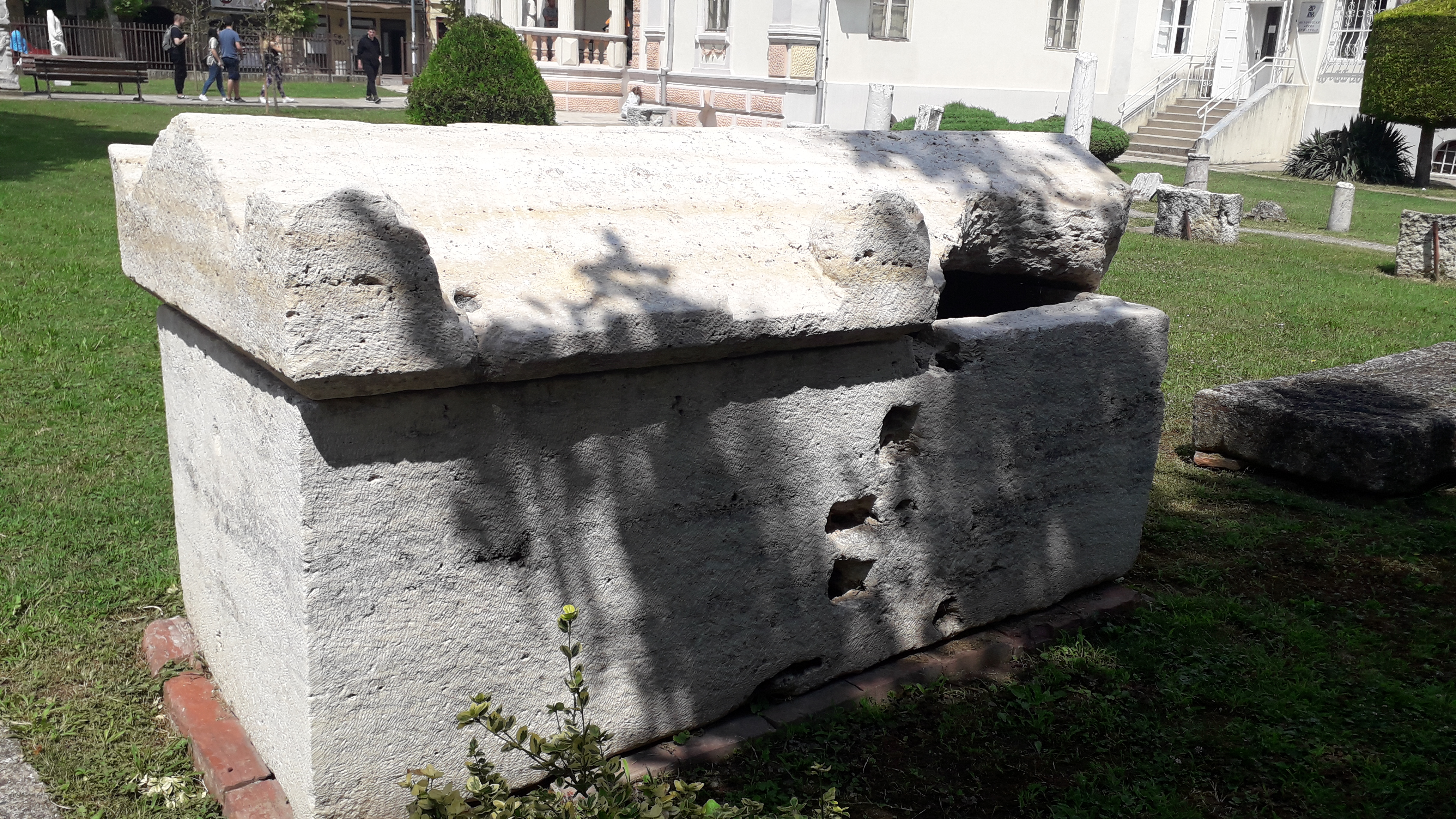 Sarcophagus from the classical era. From the exhibit of National museum Požarevac, Serbia.